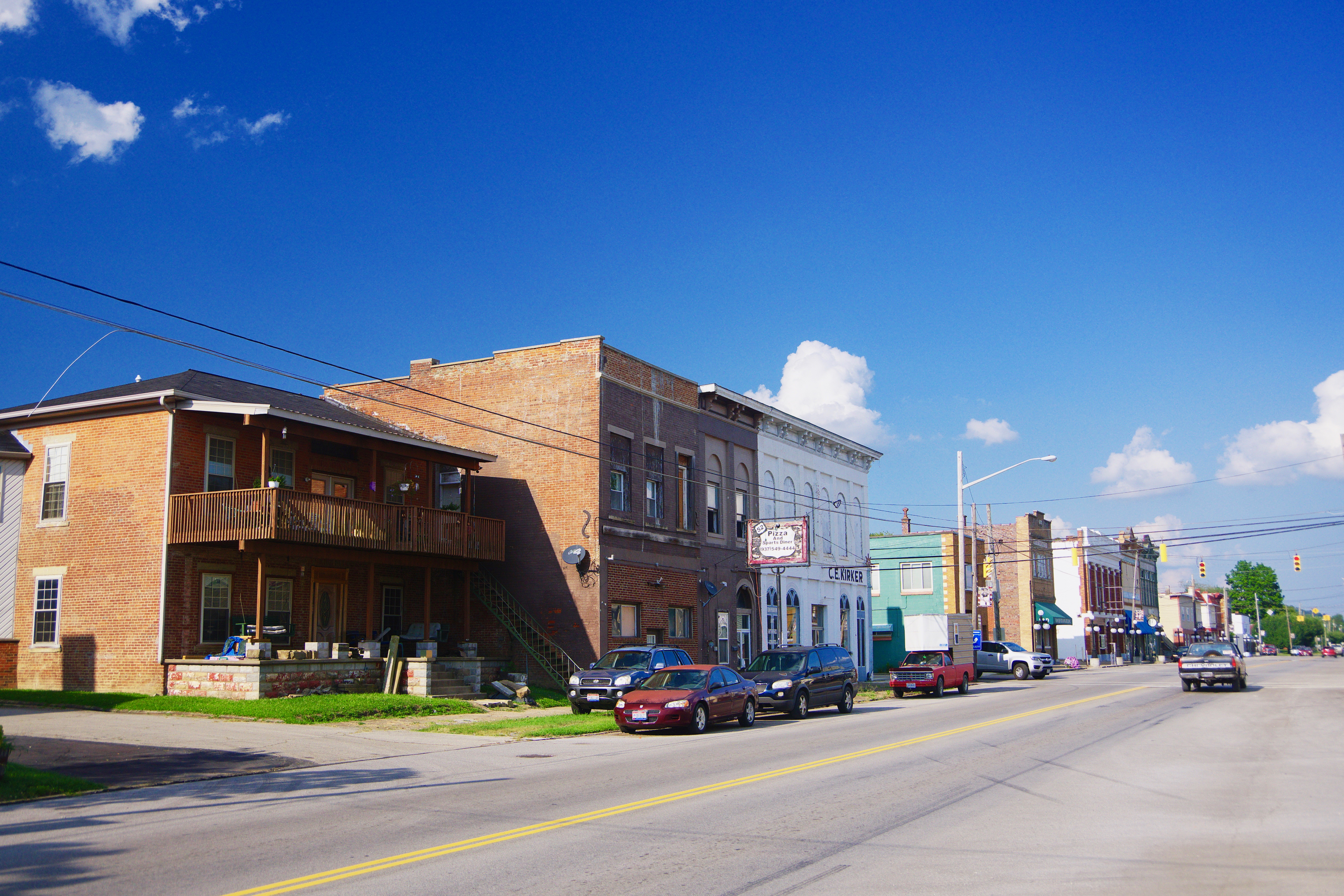 Businesses along Second Street (U.S. Route 52) in Manchester, Ohio, United States.